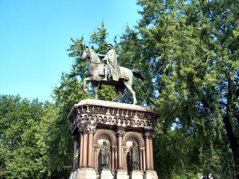 Statue of Charlemagne